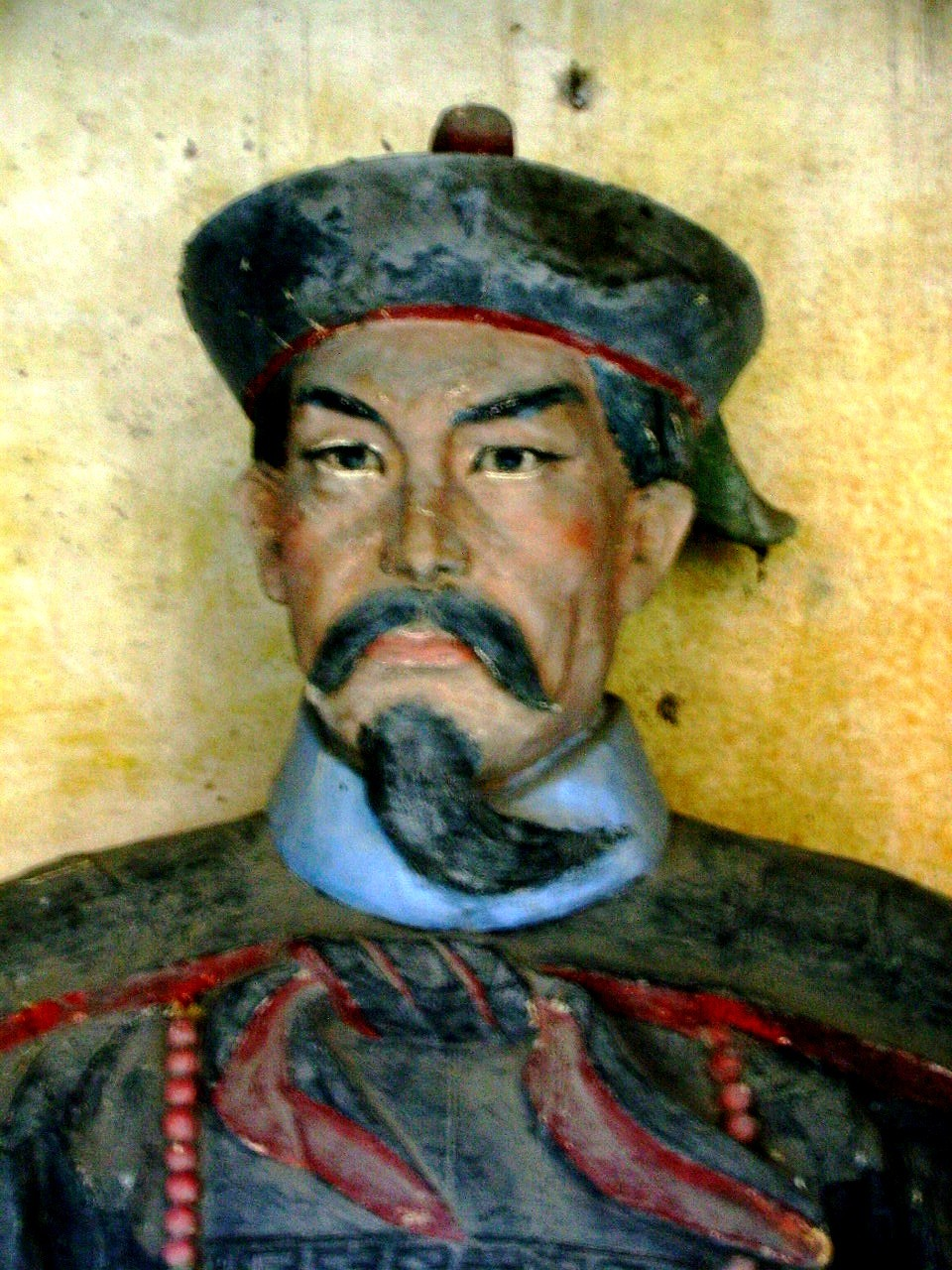 Ancient statue of Ding Baozhen at Erwang Temple, Dujiangyan